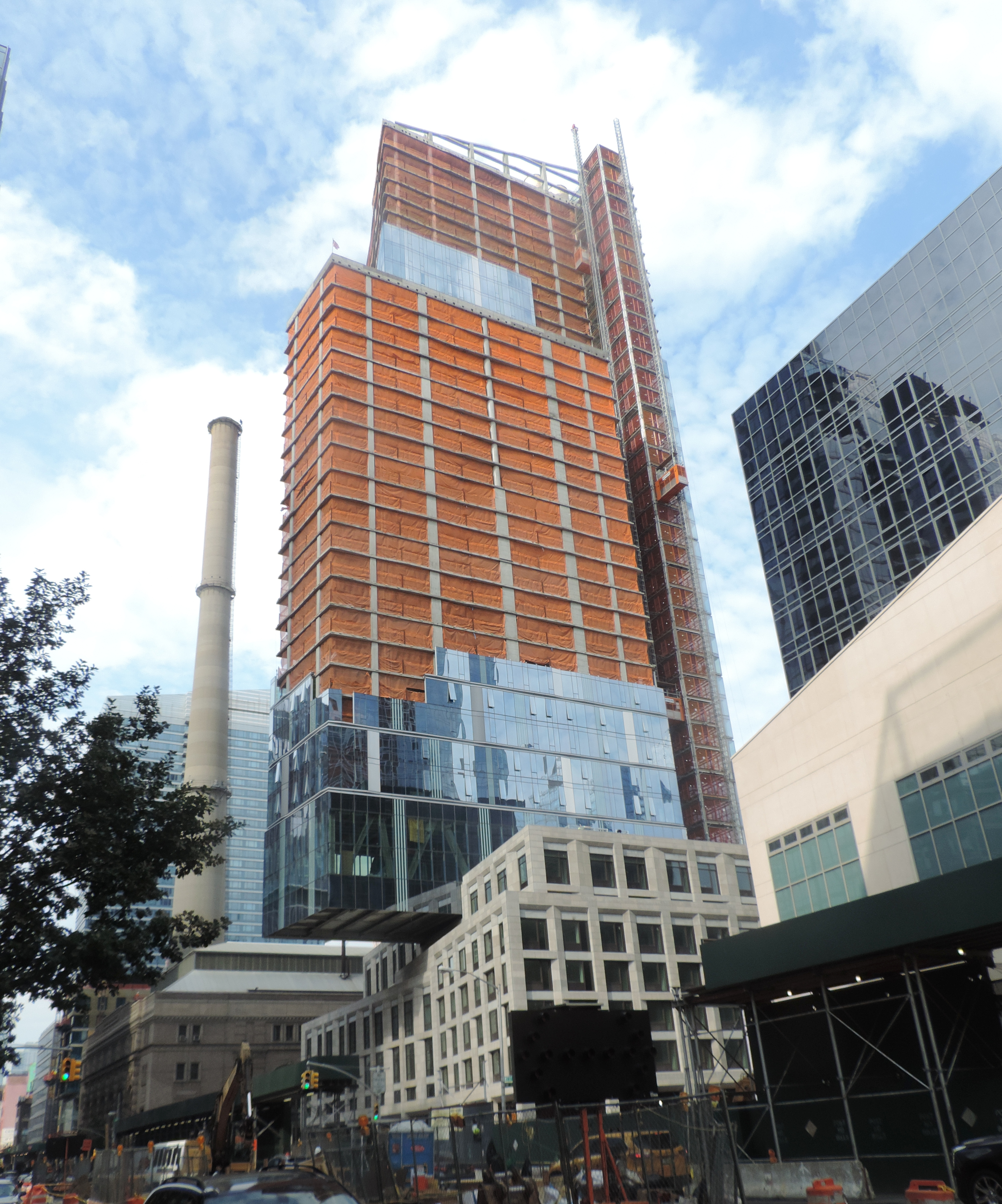 Looking southwest across West End Avenue at 10 WEA, on a partly cloudy midday.